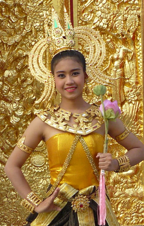 dancing art Thai ancient show in the Wat Phra Thaen Sila At fair in Thung Yang subdistrict, Amphoe Laplae, Uttaradit Province, Thailand.